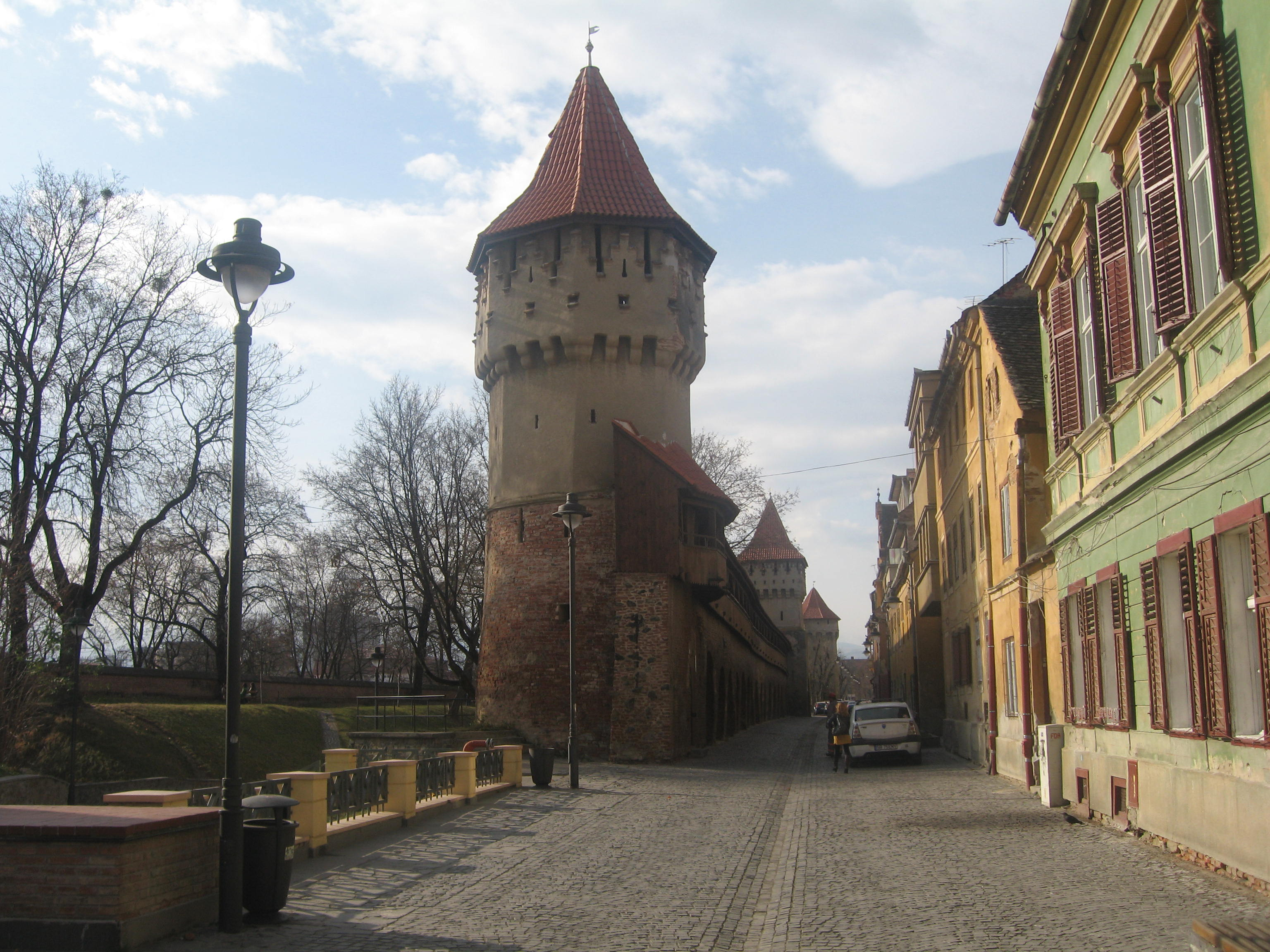 Turnul Dulgherilor in Sibiu, Romania